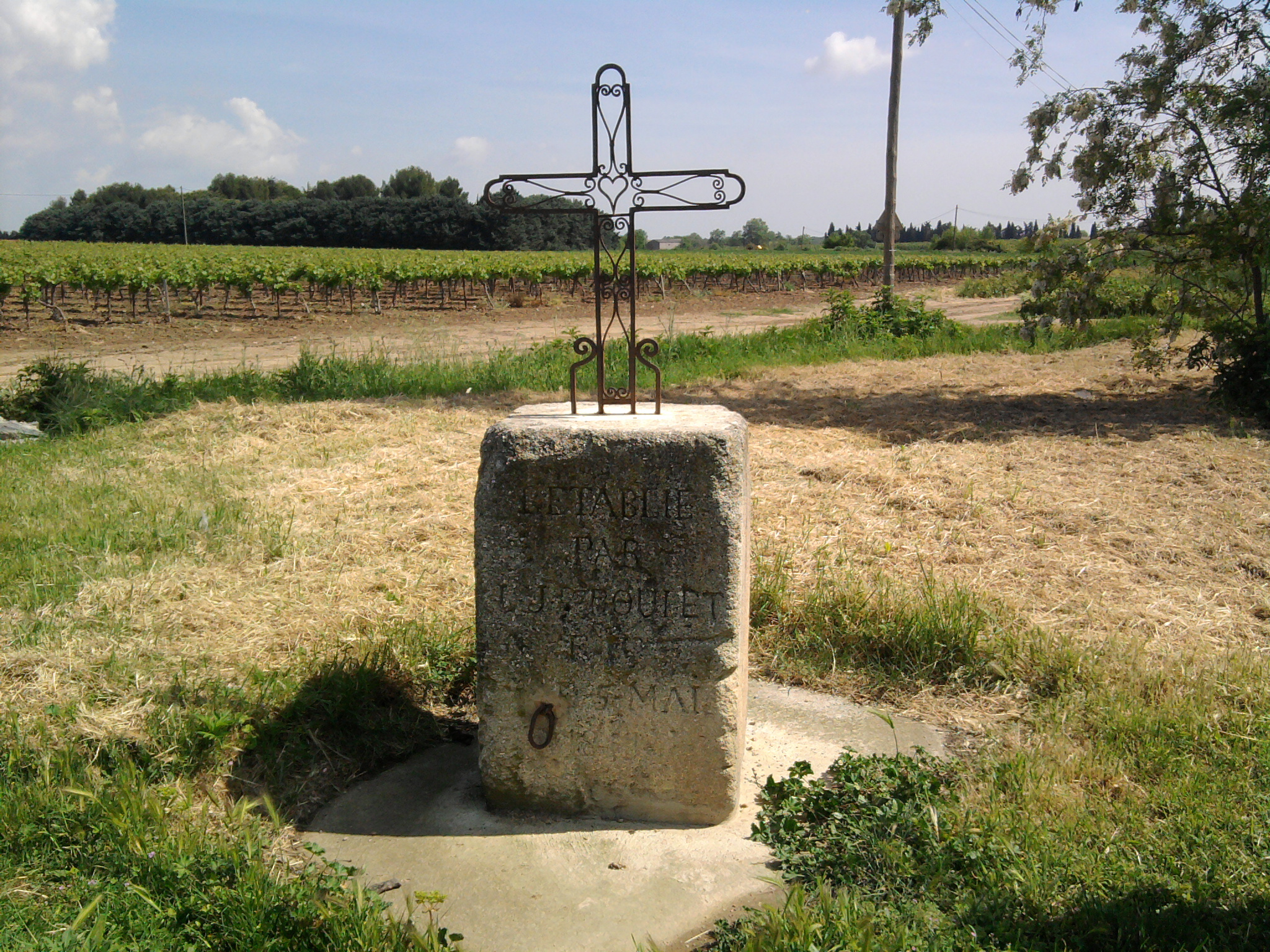 View of a cross (Canal of Lunèl)